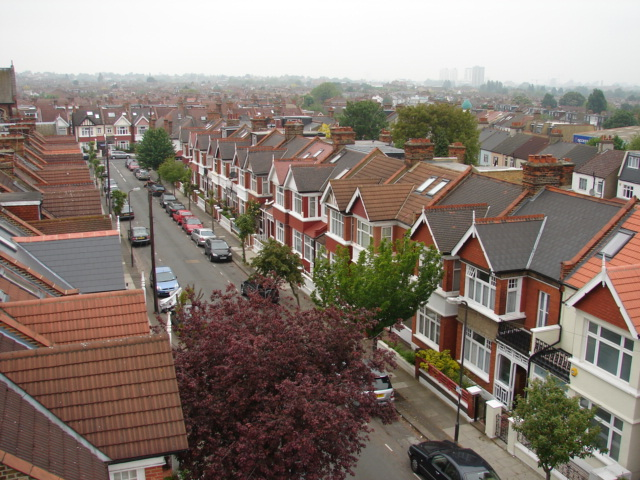 Strathmore Road Elevated view of street and suburbia.